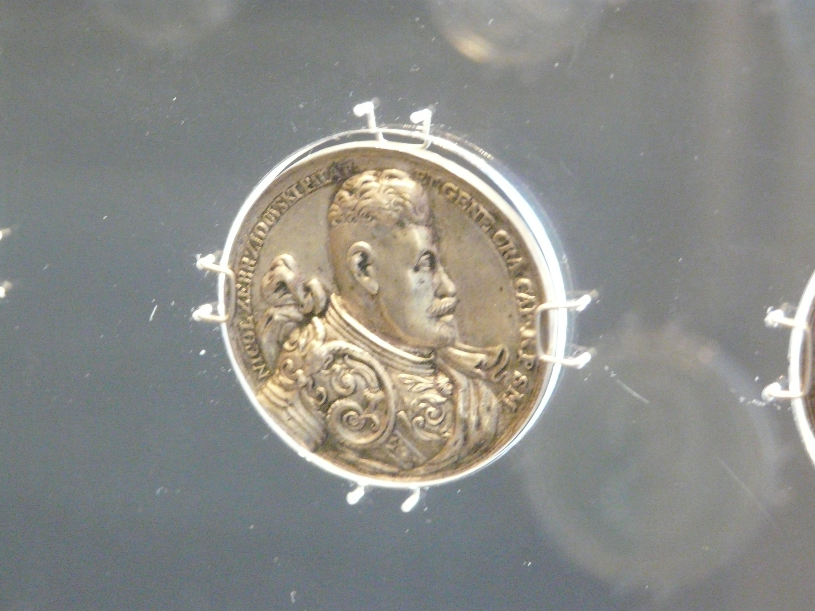 From the collection of the National Museum in Poznań. Mikołaj Zebrzydowski, 1601 or 1619